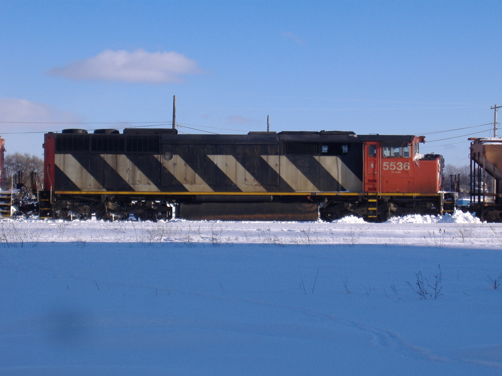 CN Loco No.5536 Battle Creek Mi